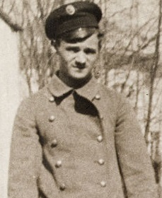 Leonid Sednev